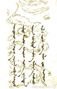 Calligraphy of poem "White cloud" composed and brush-written by Injinash Banchinval.